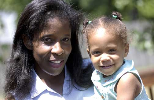 Melodie and Laurel Homer, widow and daughter of LeRoy Wilton Homer Jr, First Officer of W:United Airlines Flight 93.